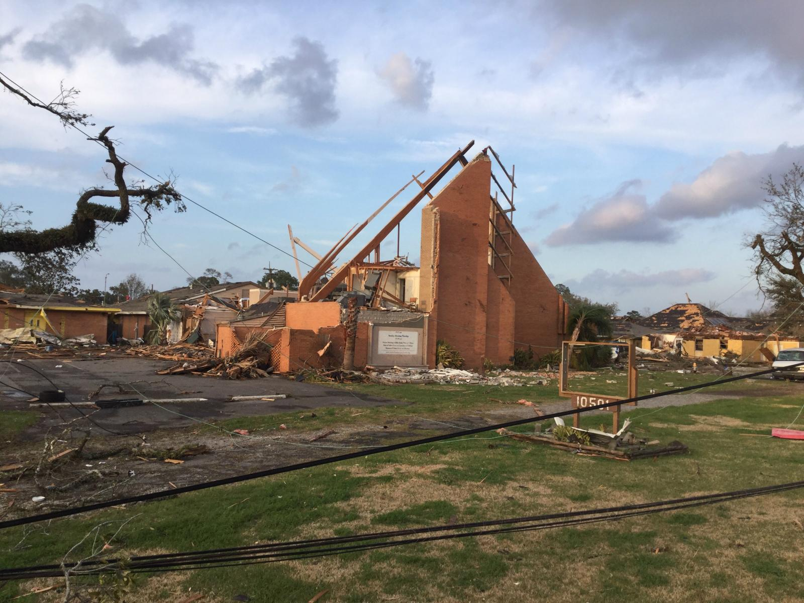 EF3 damage to a church in East New Orleans.